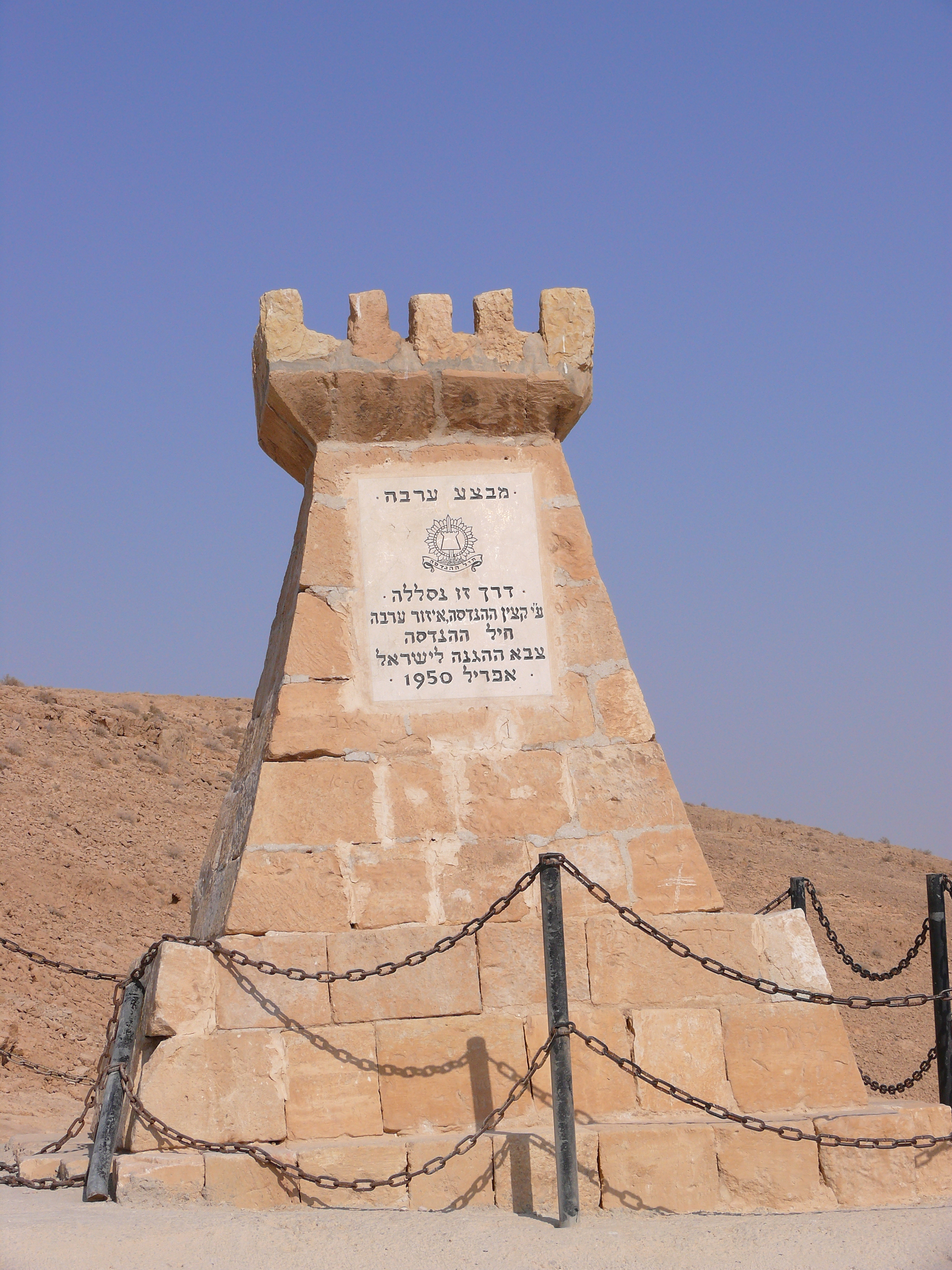 Monument for Israel Engineering Corps in Maale Aqrabim in Israel